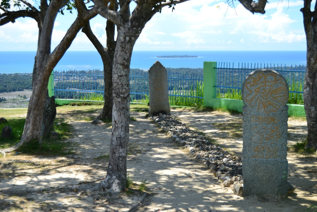 Tomb of Sheikh Mahmud Barus, Papan Tinggi.